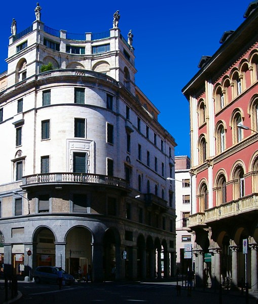 Varese: Via Vittorio Veneto picture taken by user:Idéfix, august 2004